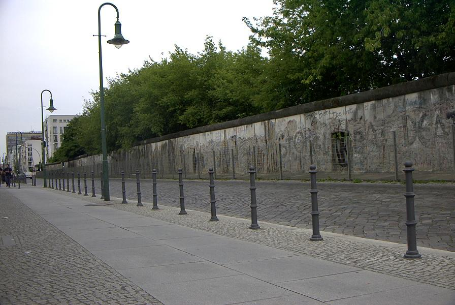 a preserved part of the Berlin Wall at Niederkirchnerstraße